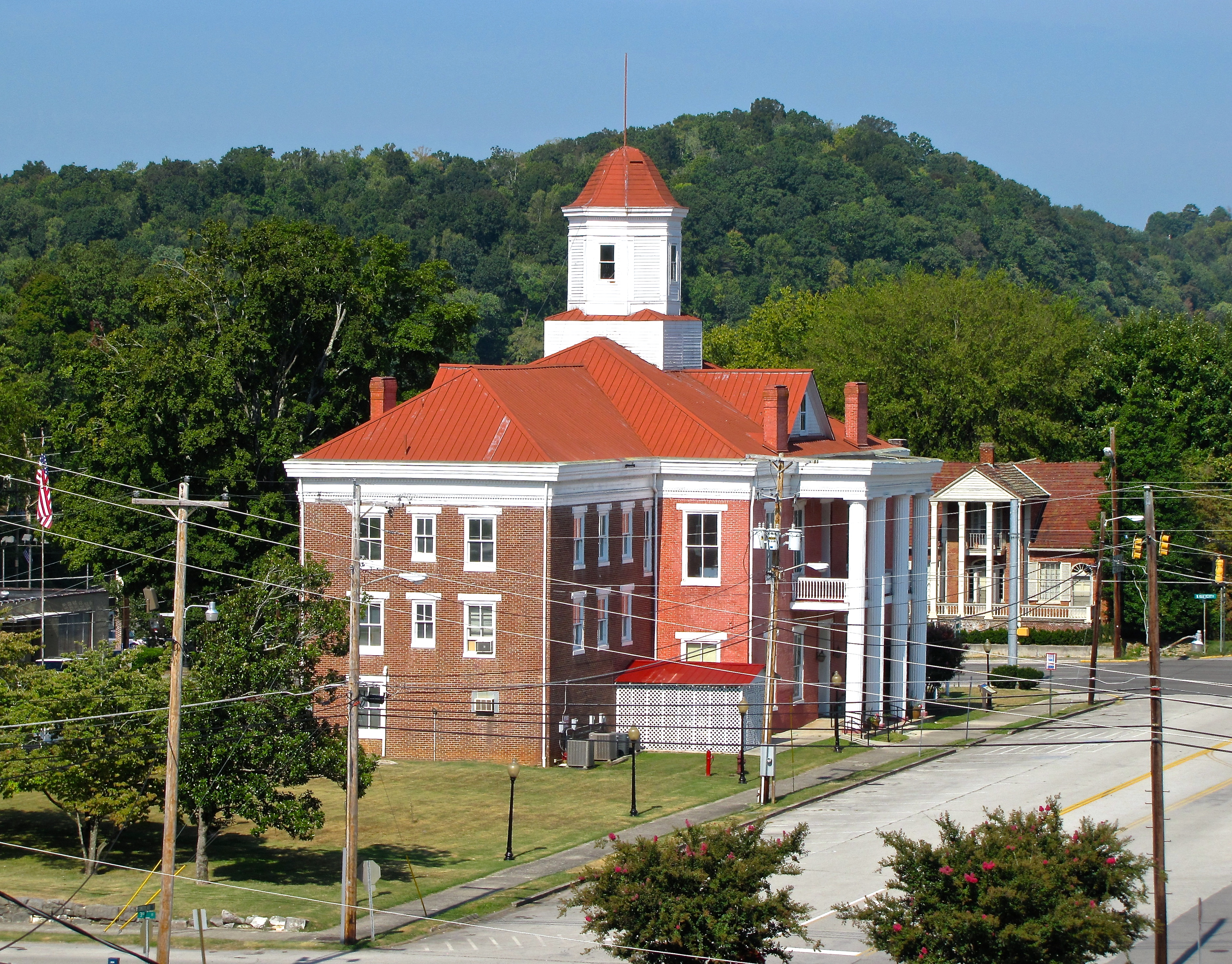 The Old Courthouse in Kingston, Tennessee, United States.